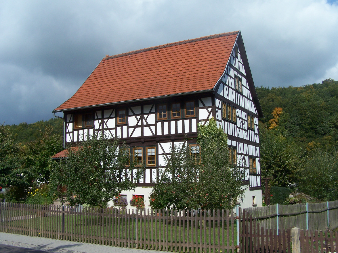 A listed timber framed building in Seebach.